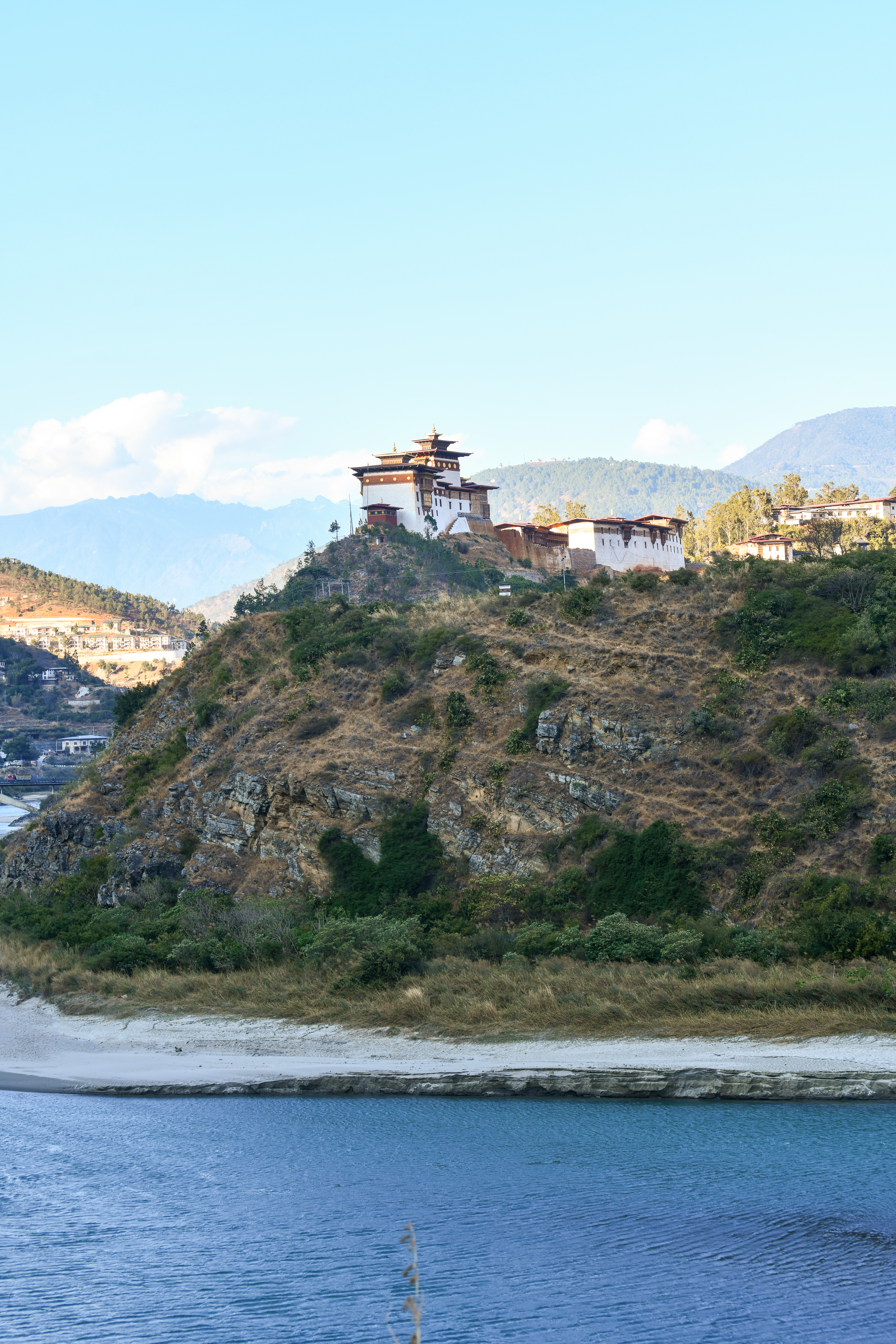 A view of Wangdue Phodrang Dzong, under reconstruction 2019.Overlooking Puna Tsang Chu (Sankosh) River.